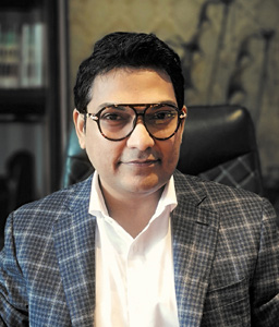 Dr Ajeenkya D Y Patil